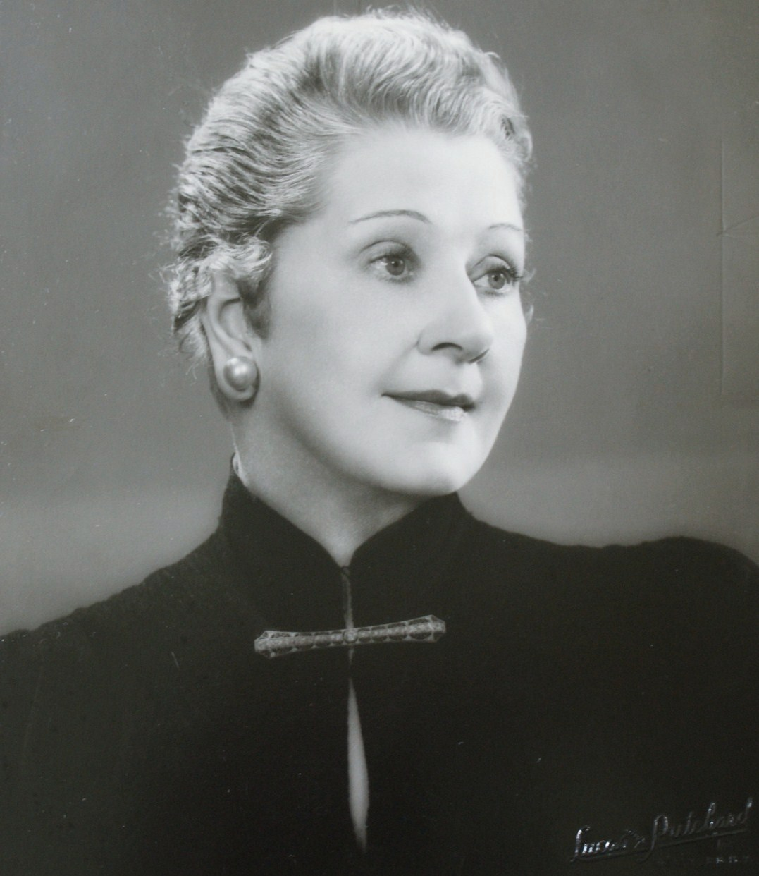 Catherine Doucet in the Maxwell Selser's play Eye on the Sparrow, Broadway, Vanderbilt Theatre - publicity still (cropped)